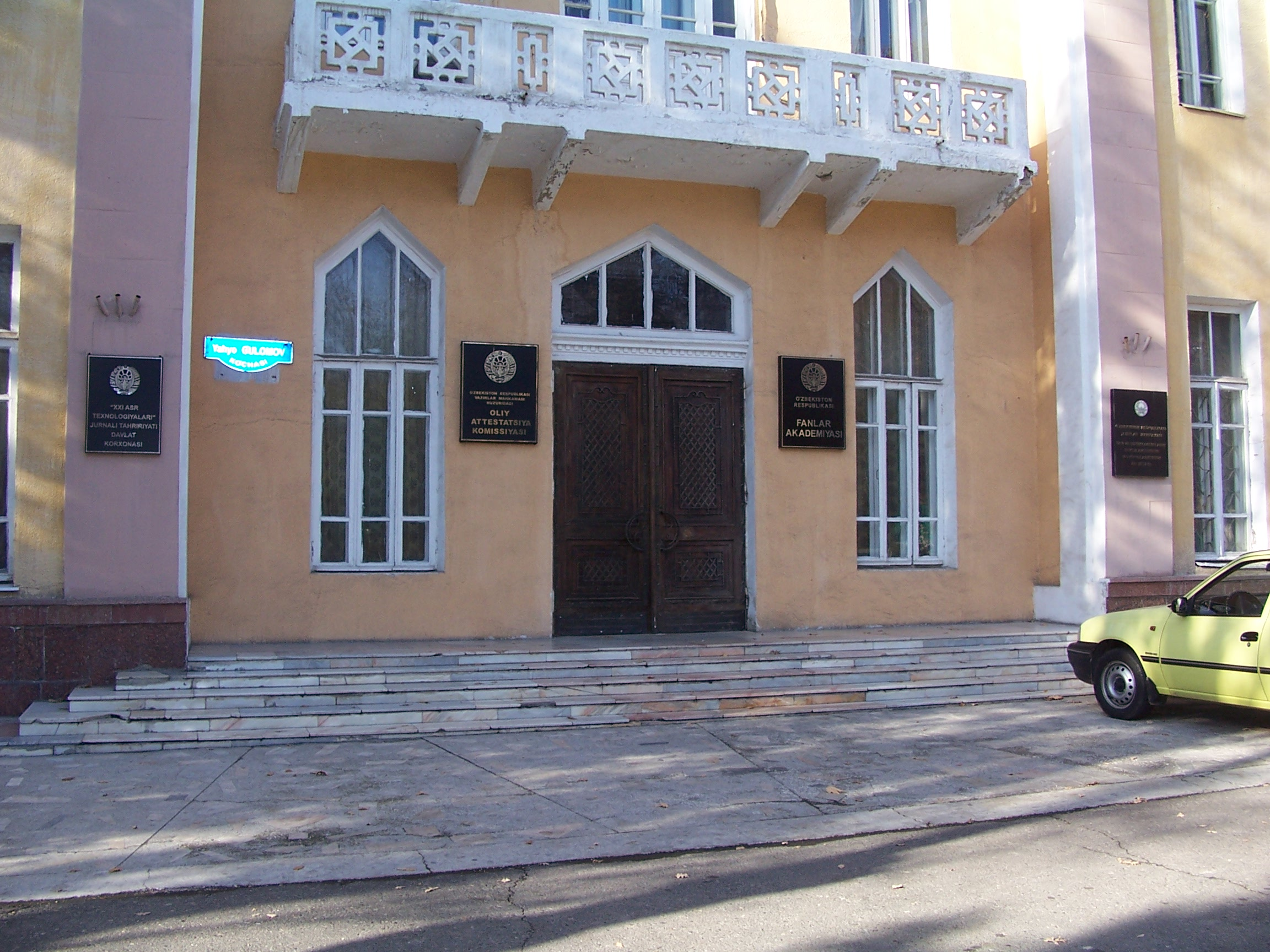 Entrance to Academy of Sciences of Uzbekistan. Oʻzbekcha/ўзбекча: Oʻzbekiston Respublikasi Fanlar Akademiyasi binosiga kirish.